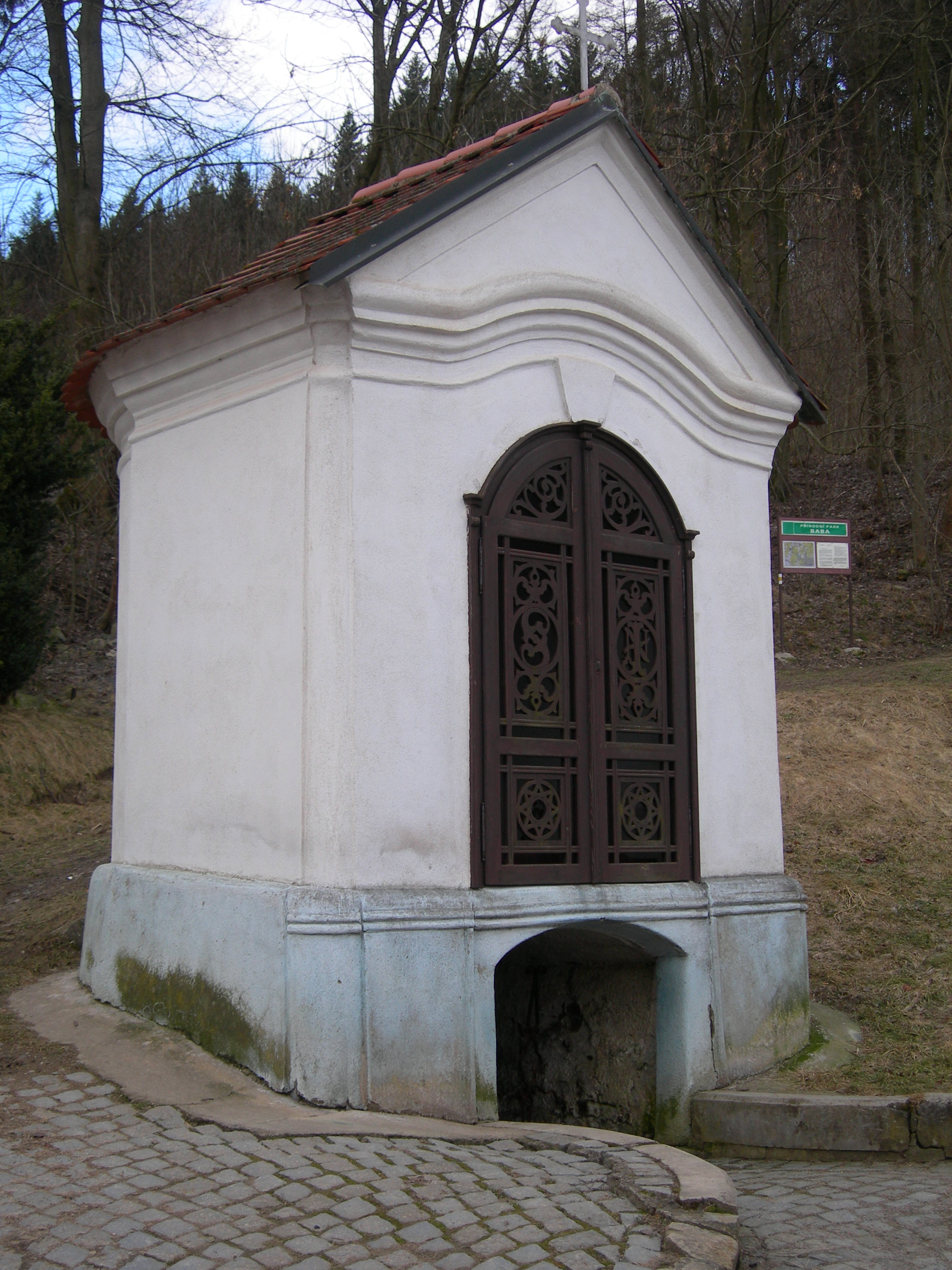 CZ/Kuřim/Village chapel in the hill of Kuřimská hora